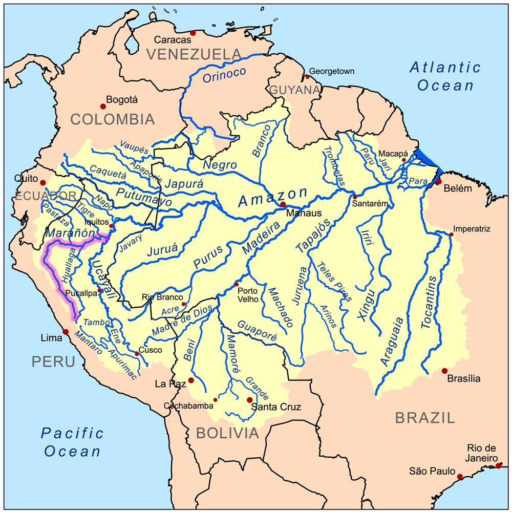 This is a map of the Amazon River drainage basin with the Marañón River highlighted.